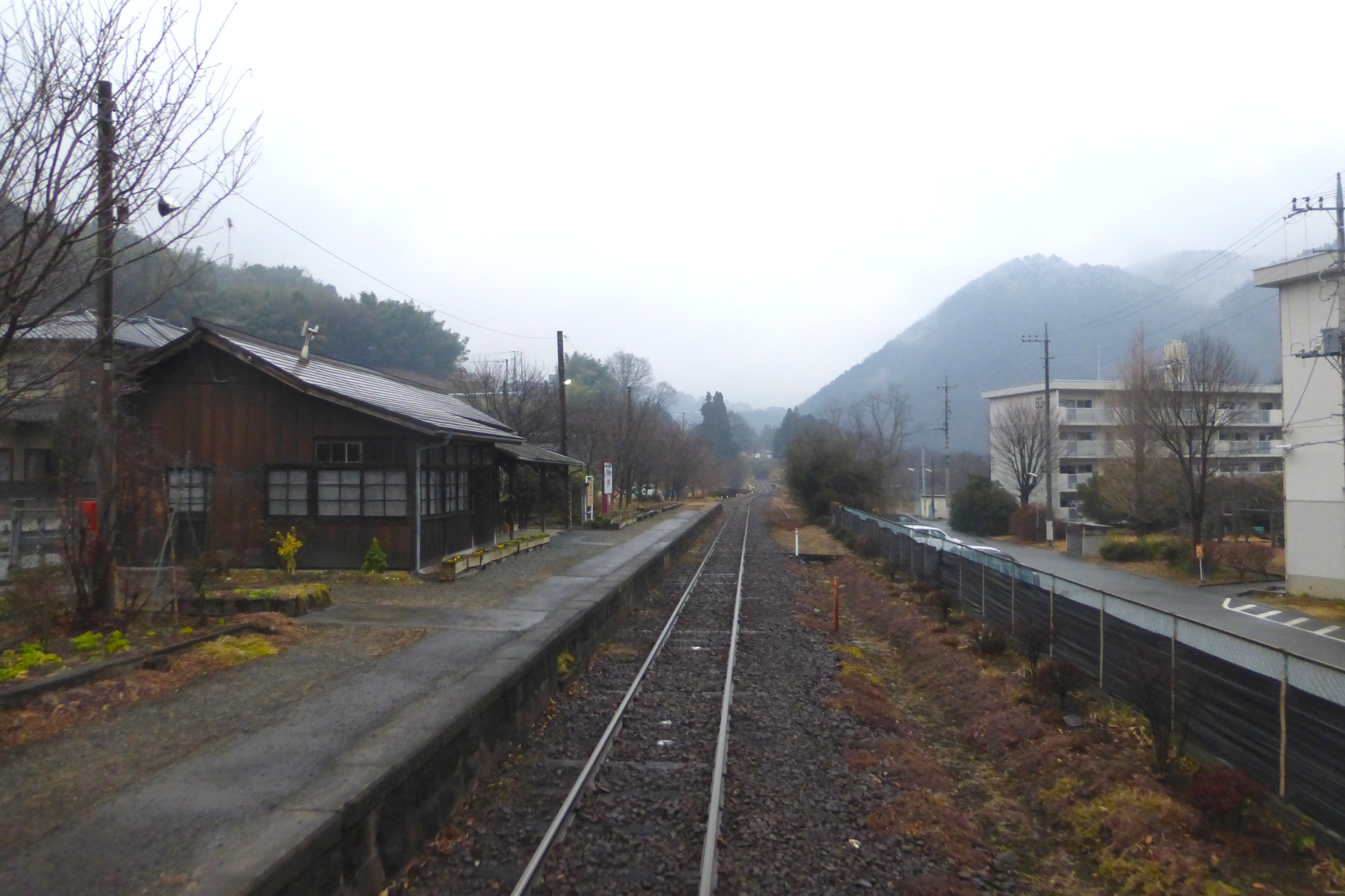 Kami-Kambai Station (上神梅駅 Kami-Kambai-eki) platform (and station building) on a rainy/snowy day.